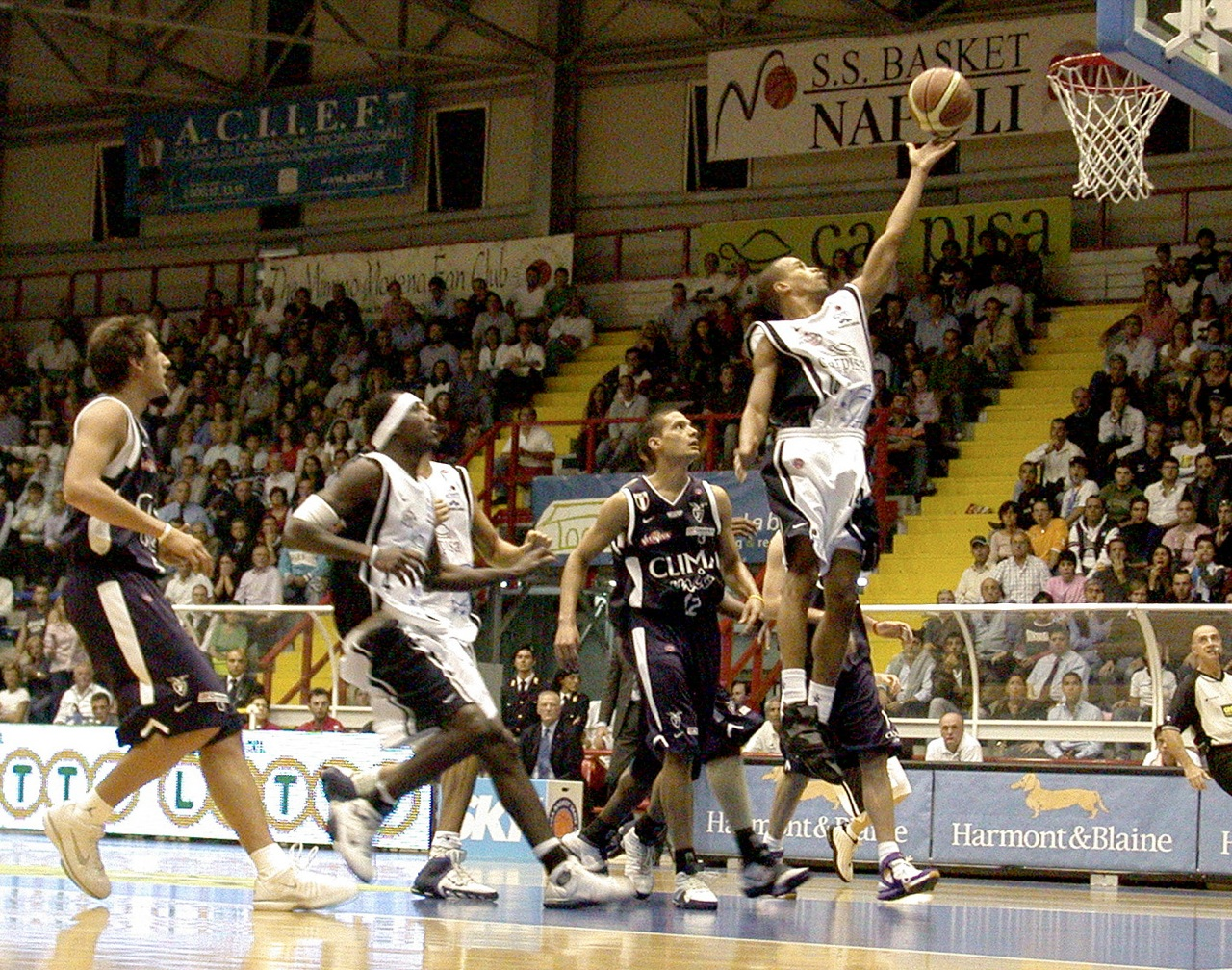 Description: Carpisa Napoli 2005-2006 Source: self-made Location: Naples, Italy Photographer: Massimo Finizio